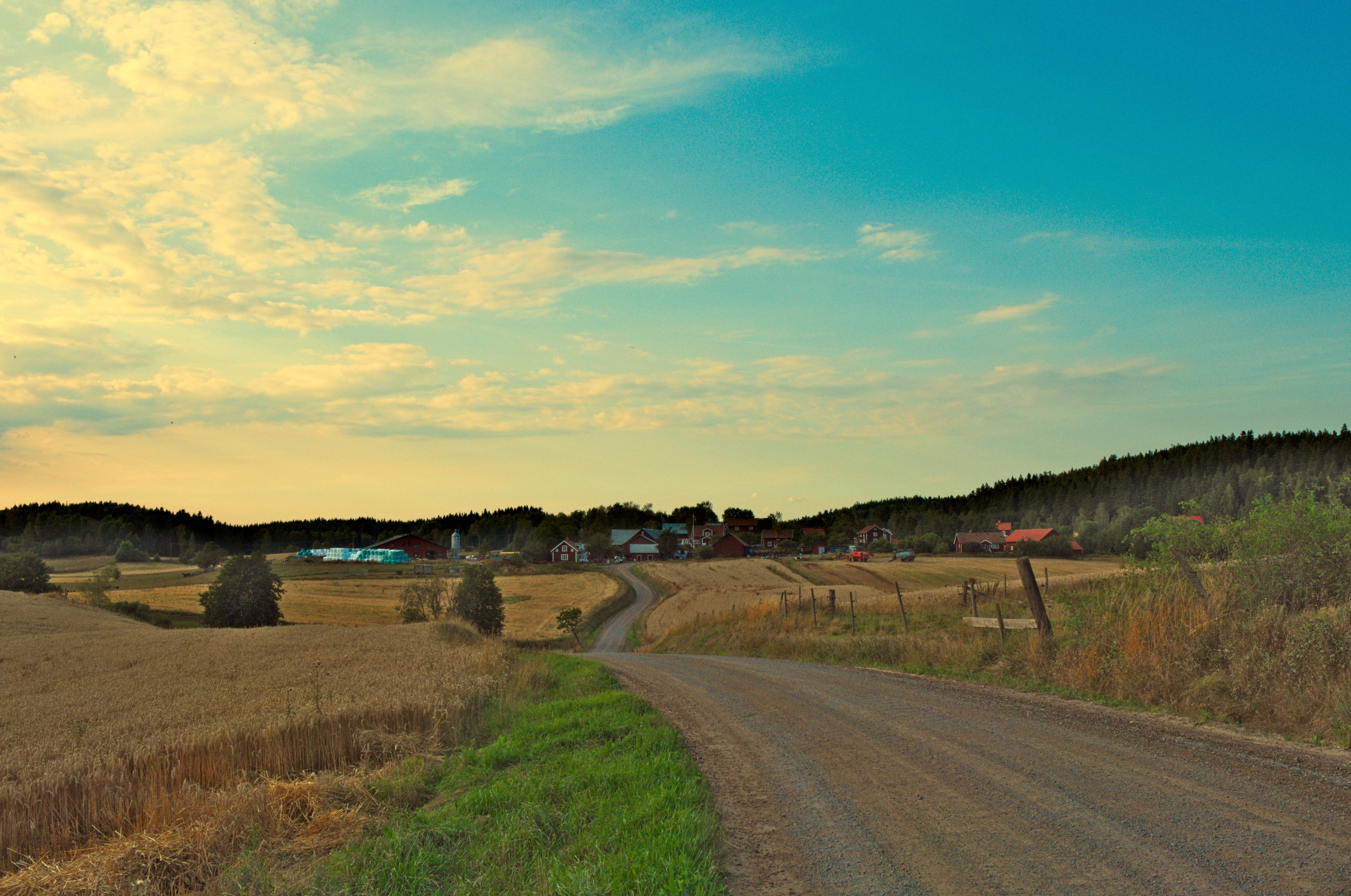 Village of Bjäsätter